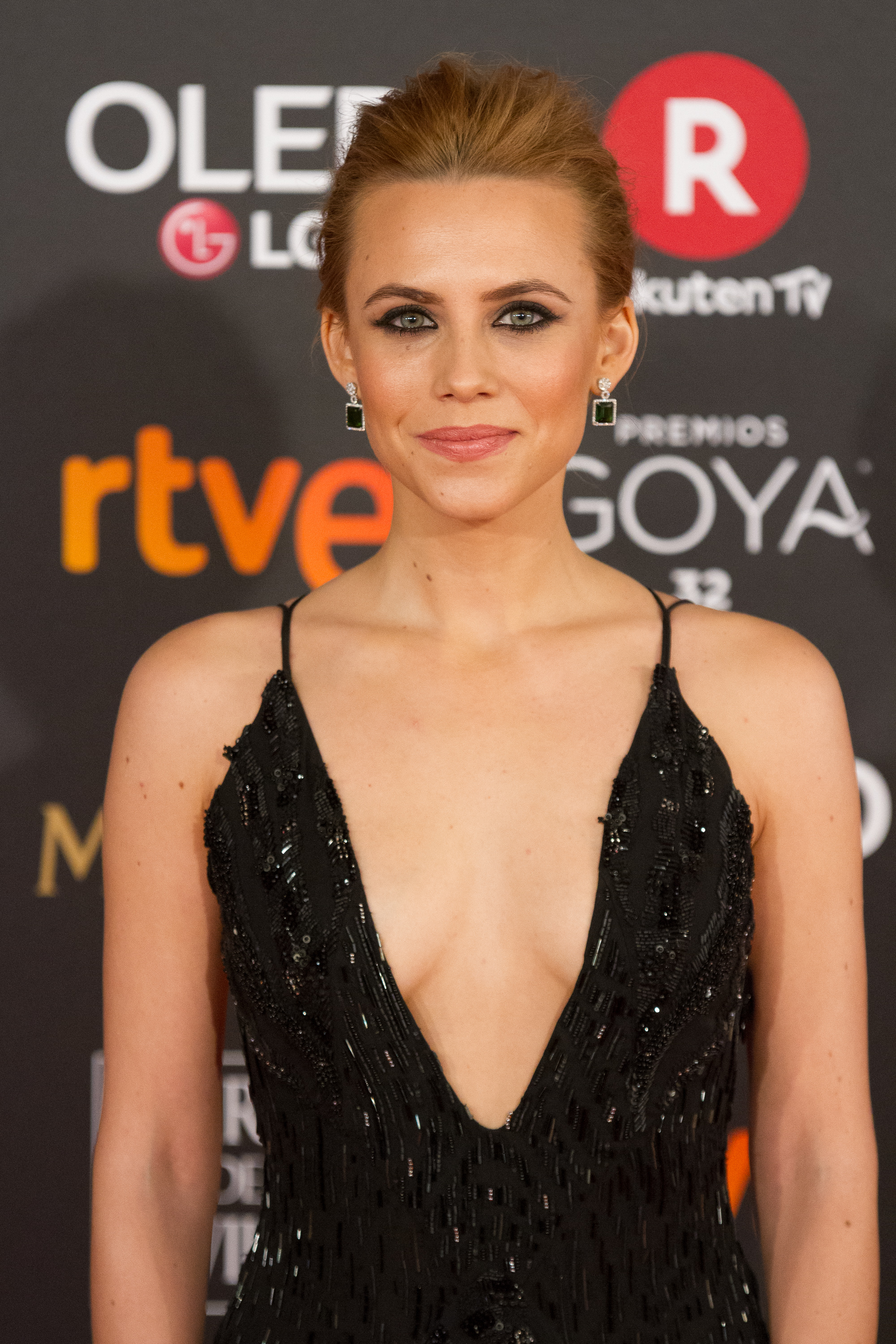 32nd Goya Awards, 2018.